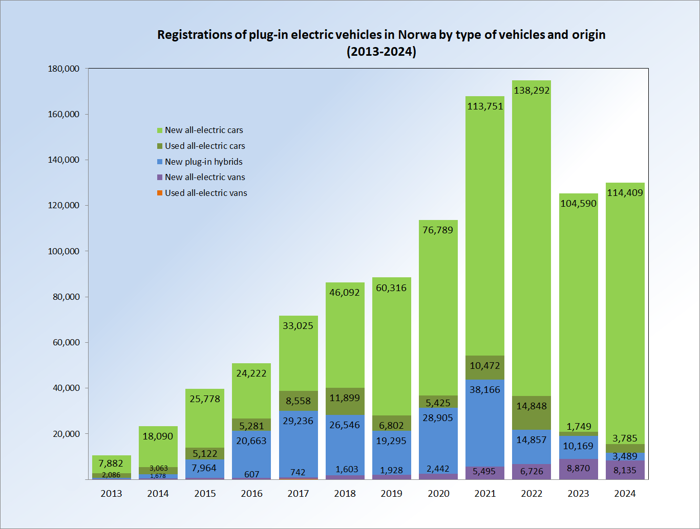 Graph showing historical series of light-duty plug-in vehicle registrations in Norway from 2012 to 2019 (total registrations with breakdown for all-electric cars, plug-in hybrids, and all-electric vans, with both new and imports from neighboring countries). Data series taken from: Registration figures from OFV (FCHVs were excluded in the graph - too small to show up in the graph): 2013-2014 2014-2015 2016 2017 2018 2019